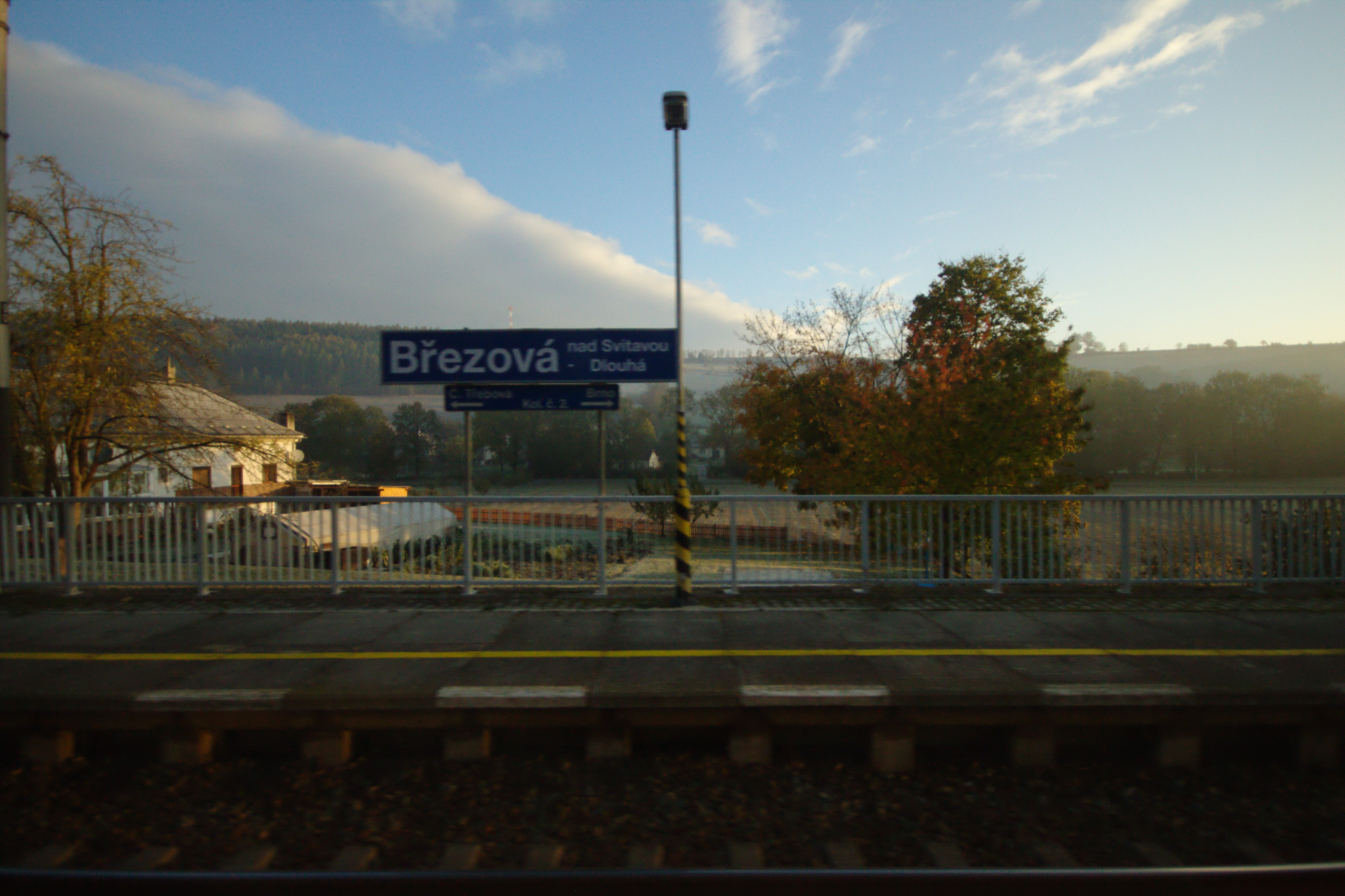 Sunrise in Březová nad Svitavou